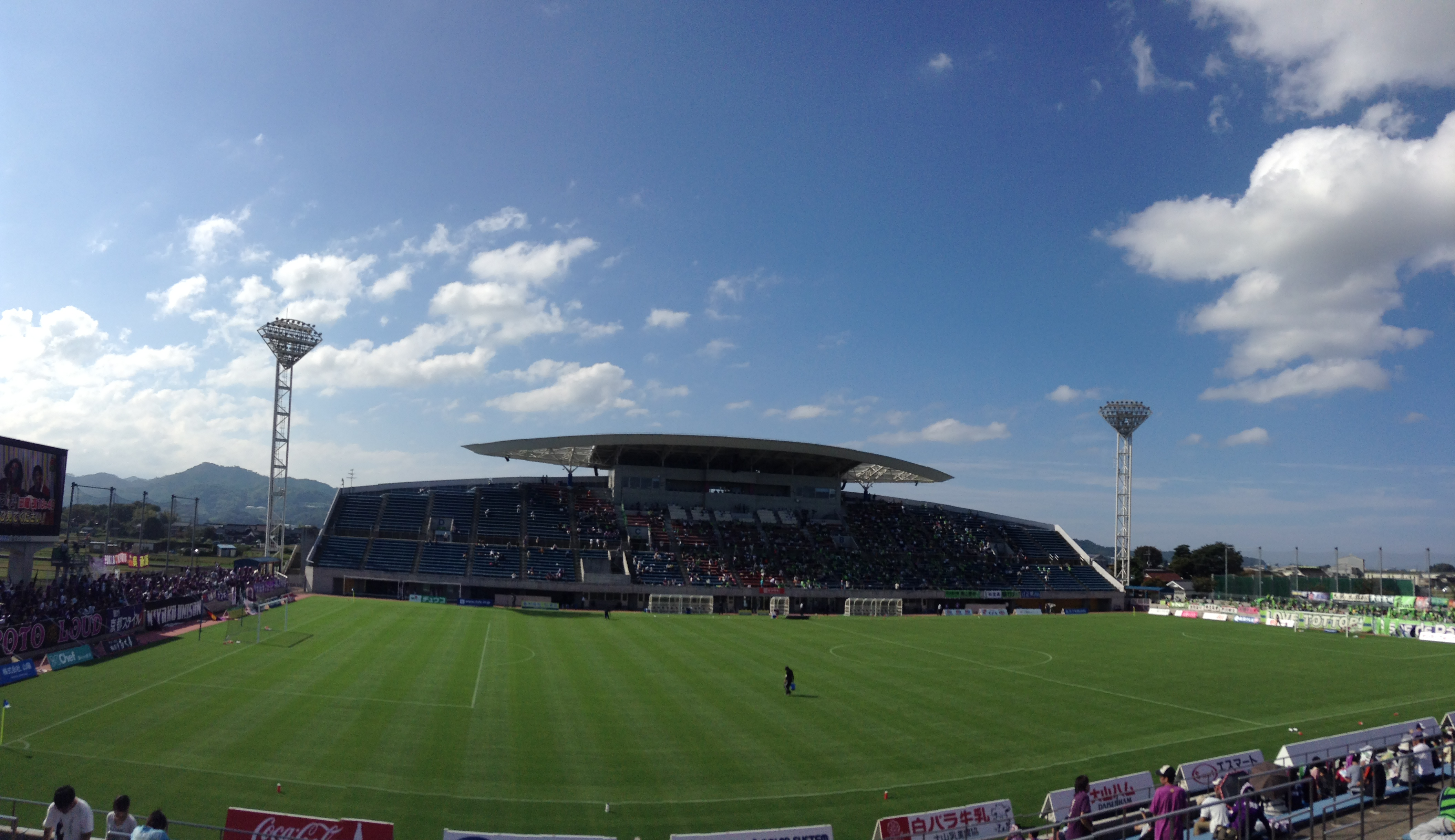 Main stand of Tottori Bird Stadium (a.k.a Tottori Bank Bird Stadium). J. League Division 2 ,Gainare Tottori vs Kyoto Sanga F.C., 6 October, 2013